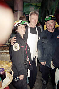 Actor Harrison Ford (center) with firefighters volunteering at post-Terrorism disaster World Trade Center site in New York City, 2001. New York City/World Trade Center Deployment 2001 "Mark and Holly thanking one of the food servers near Ground Zero (notice it's Harrison Ford). Lots of celebrities helped out…some worked night duties, too."